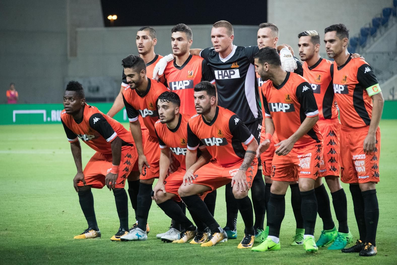 27.07.17. Израиль, Петах-Тиква, стадион «Ха-Мошава». Матч Лиги Европы УЕФА 2017/18, «Бней-Иегуда» — «Зенит».